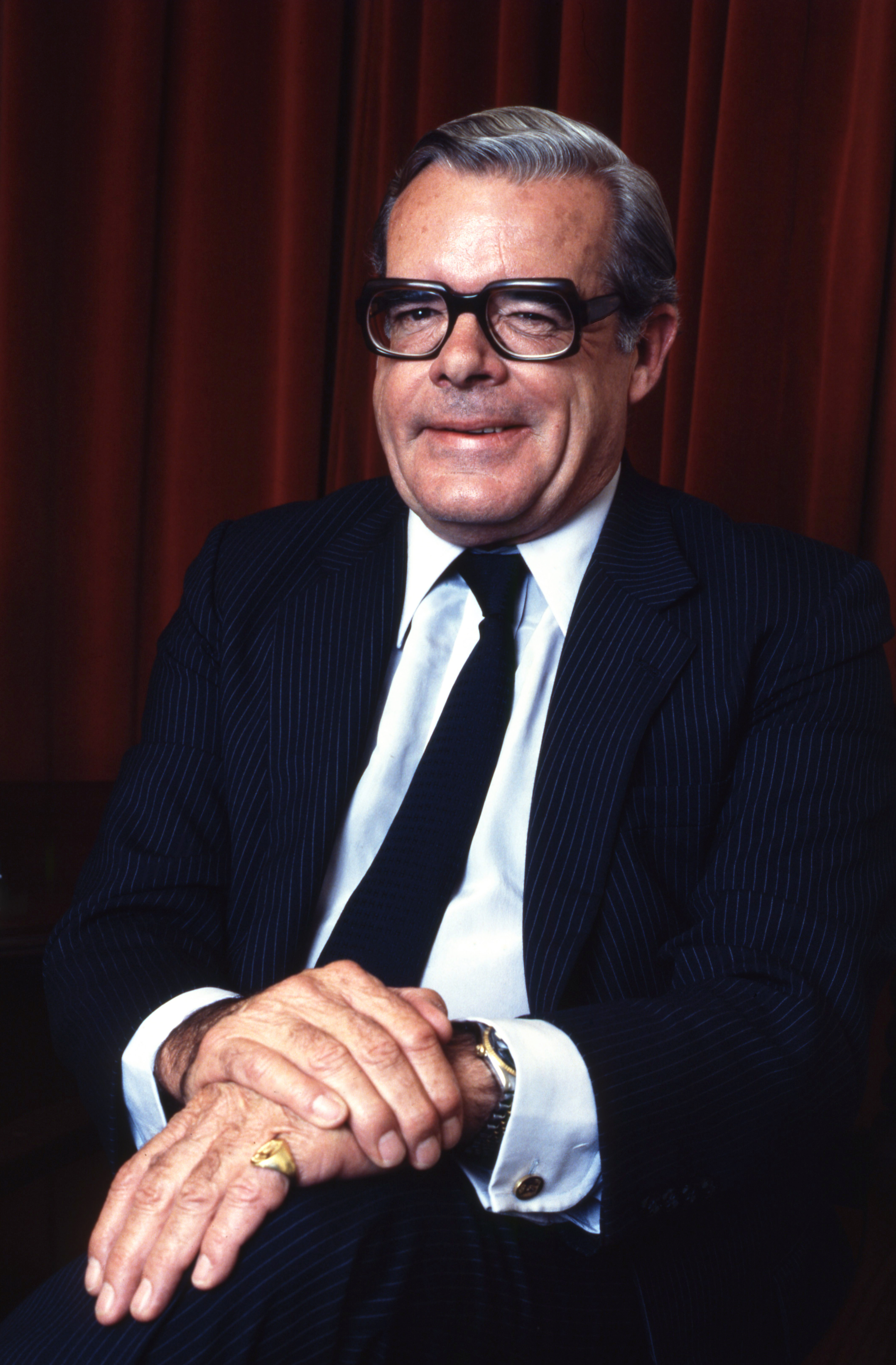 Sidney Montagu the 11th Duke of Manchester, taken in London